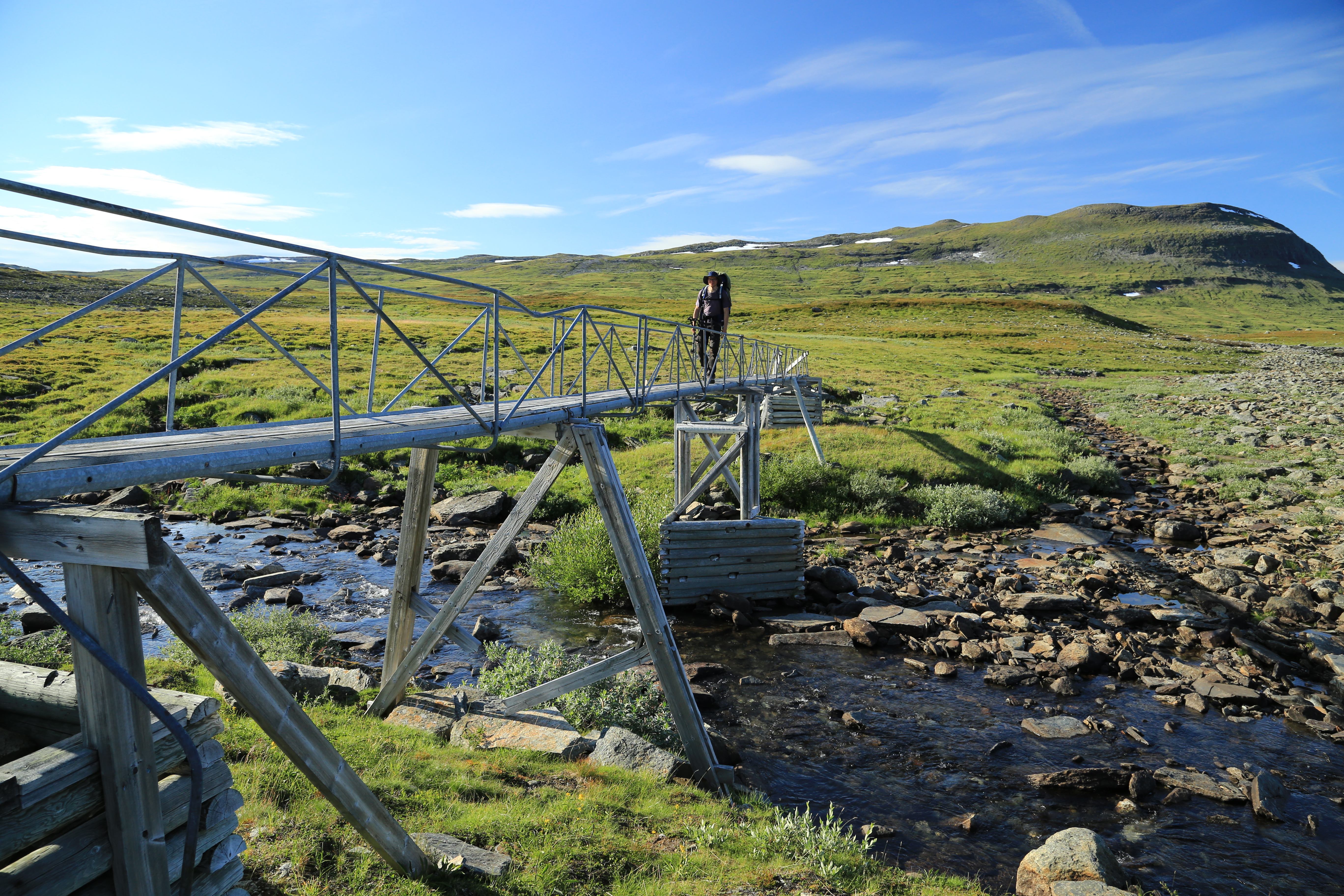 Padjelantaleden, Nordkalottleden and Áhkká massif in Sweden, in July or August 2014. This photograph is part of a series, which can be found in full in Category:Padjelantaleden and Nordkalottleden Trip in 2014. Some files have GPS coordinates associated, for others, the following overview might be helpful: Click here for approximate location at each date 25.7. Kvikkjokk and Njunjes 26.7. Njunjes and Tarrekaise 27.7. Tarrekaise and Sammerlappa, before the entrance to Padjelanta National Park 28.7. Tarraluoppal 29.7. Tuattar 30.7. Staloluokta 31.7. Arasluokta 1.8. Låddejåkkå 2.8. Kutjaure (Nordkalottleden) 3.8 + 4.8. Akkajaure, Akka mountains (Nordkalottleden and Padjelantaleden)